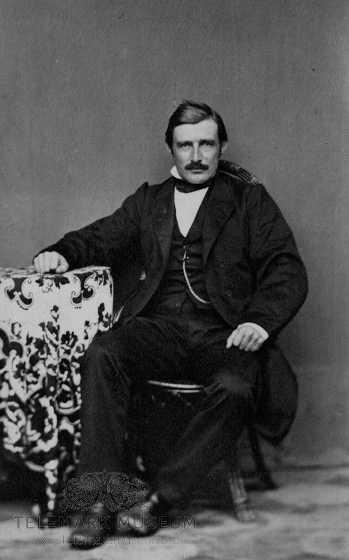 Portrait of Foreman Tellef Dahll